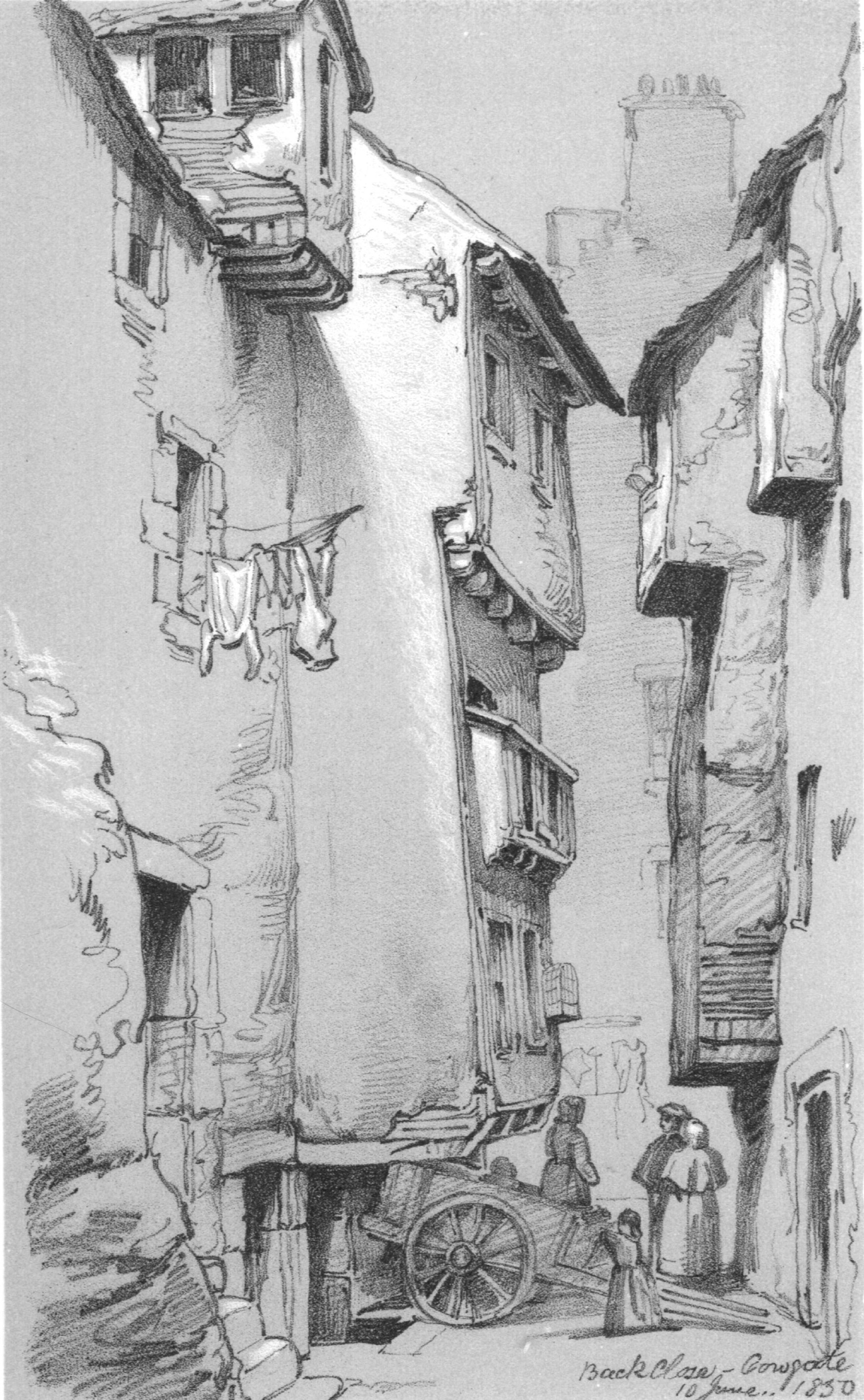 Bull's Close, off the South Back of the Canongate, 1850